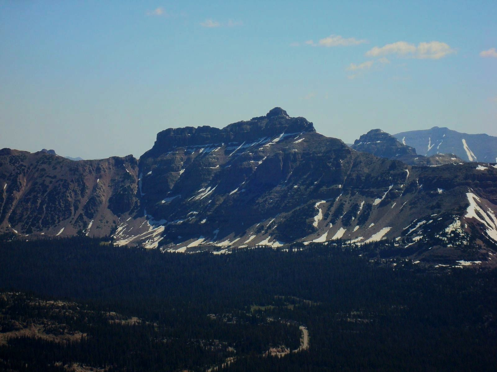 Hayden Peak in the Uinta Mountains of Utah as seen from Bald Mountain.